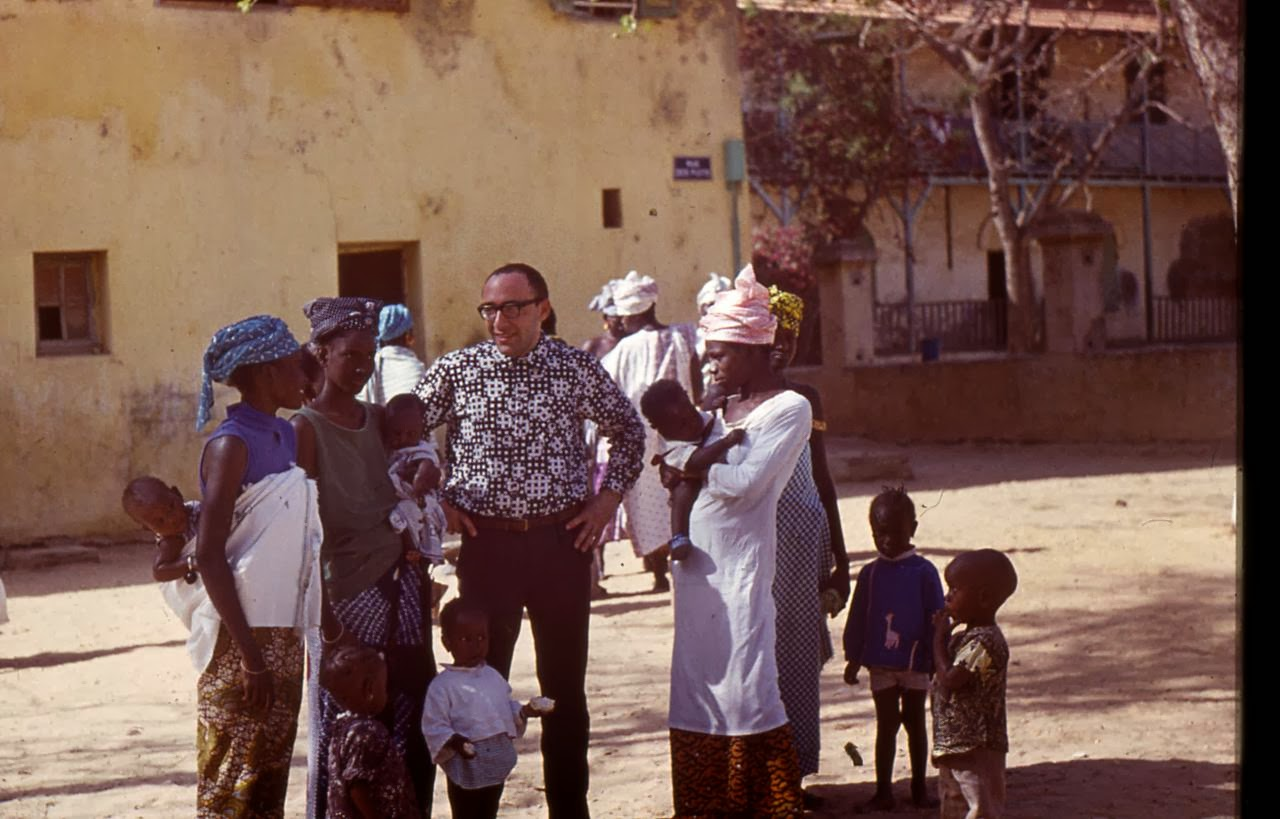 In the Senegal village